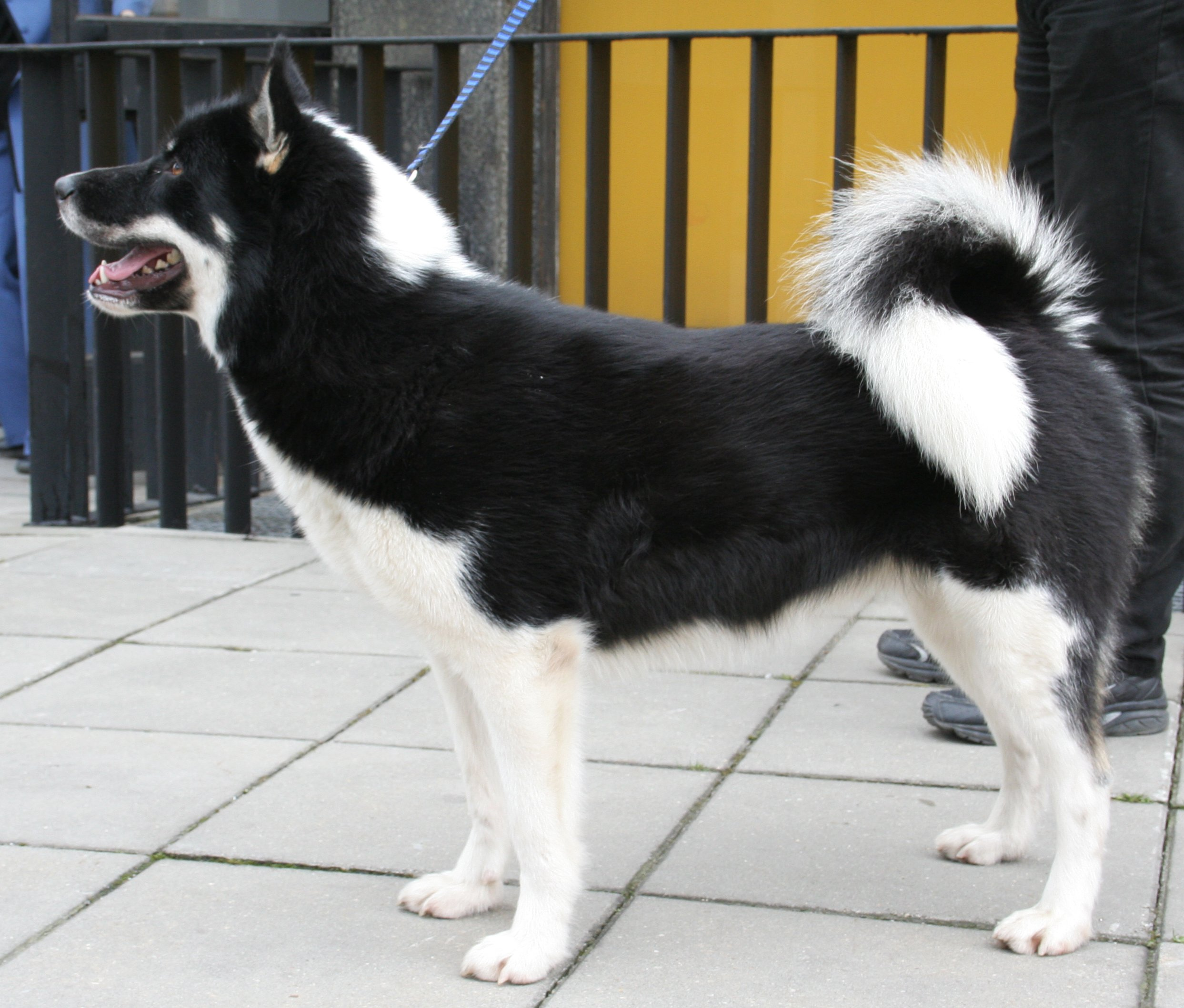 Greenland Dog during dogs show in Katowice, Poland